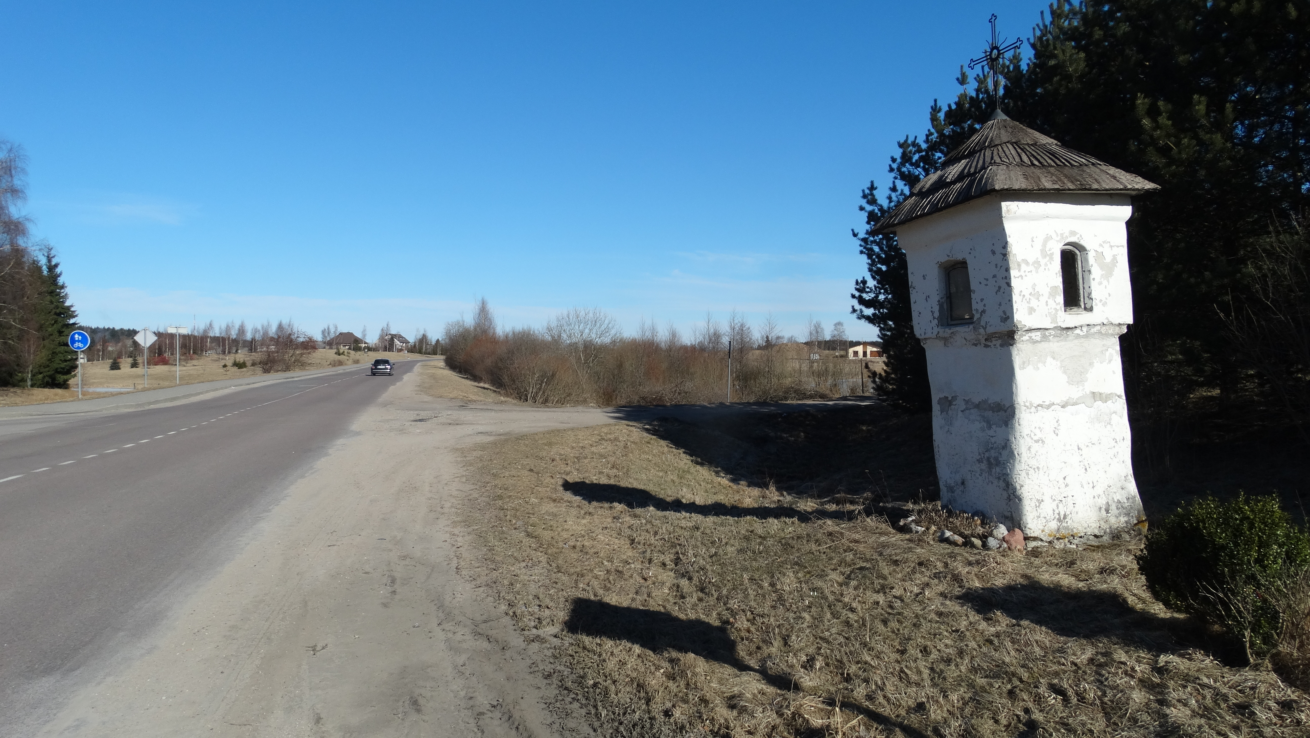 Ryškėnai, Telšiai district, Lithuania